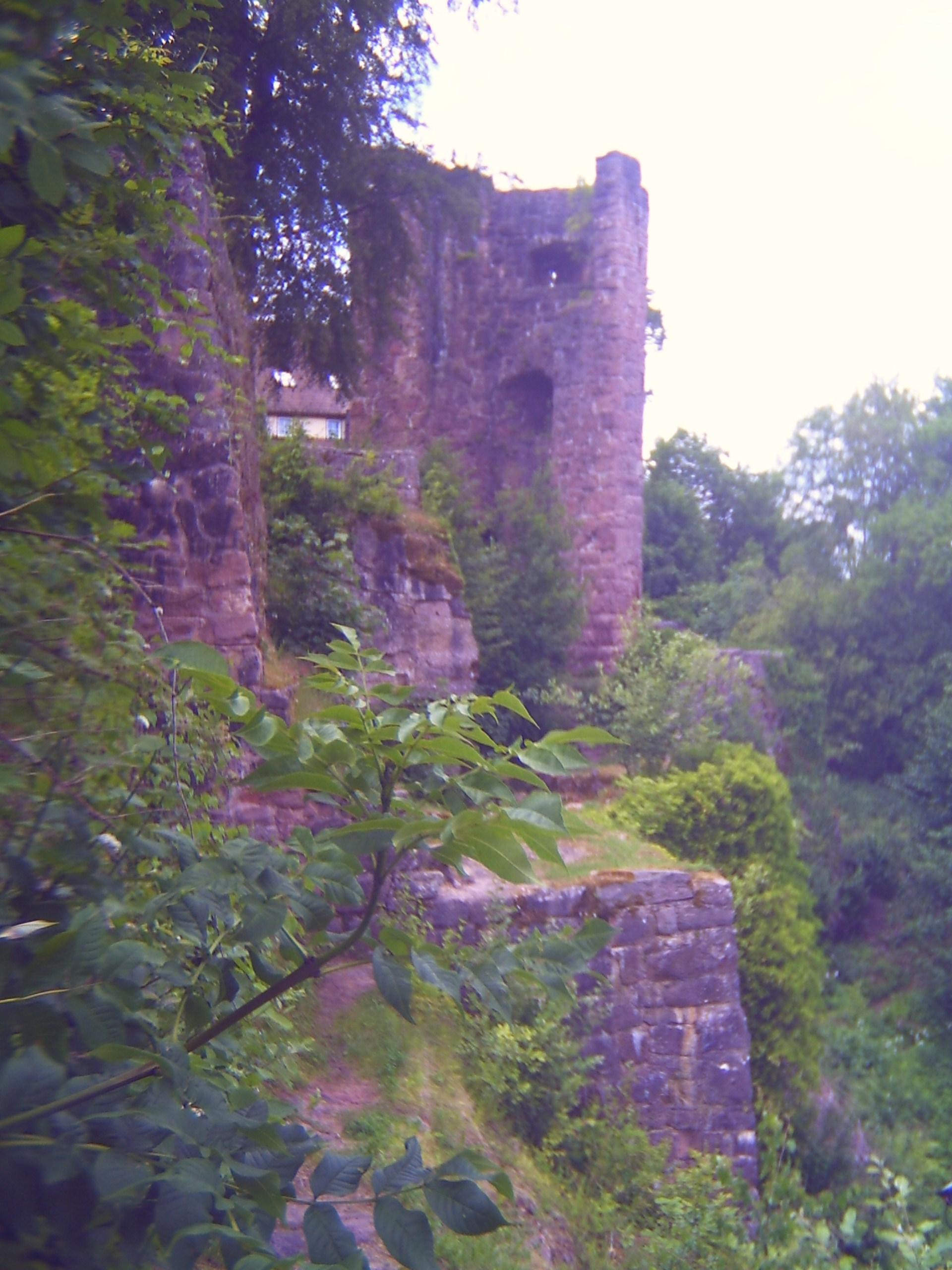 View to the Chapelle-Tower